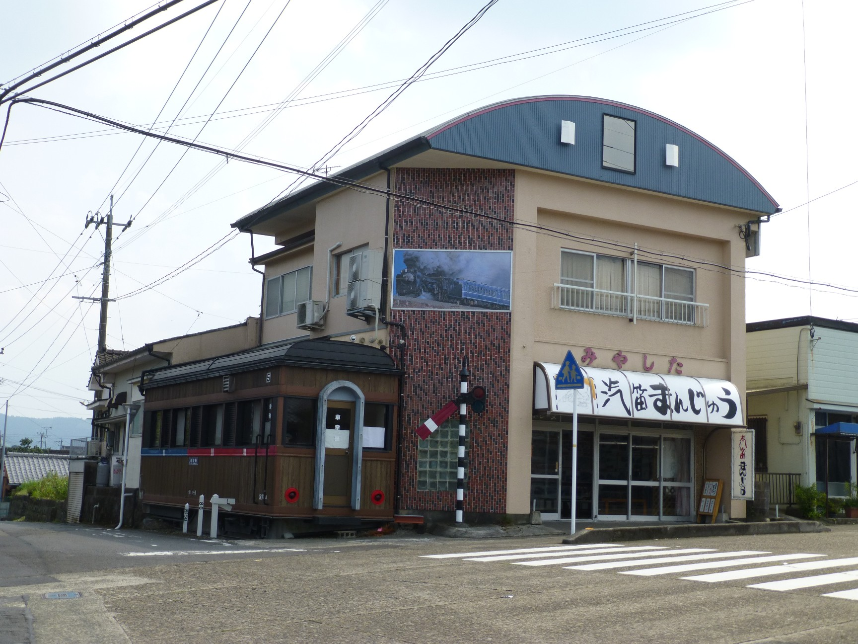 Miyashita Seika store which had produced "Kiteki Manju" (steamed bean-jam bun), Yusui, Aira, Kagoshima, Japan.